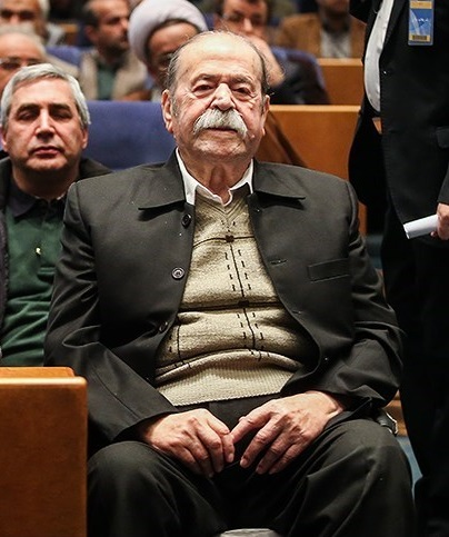 Mohammad-Ali Keshavarz, Iranian actor